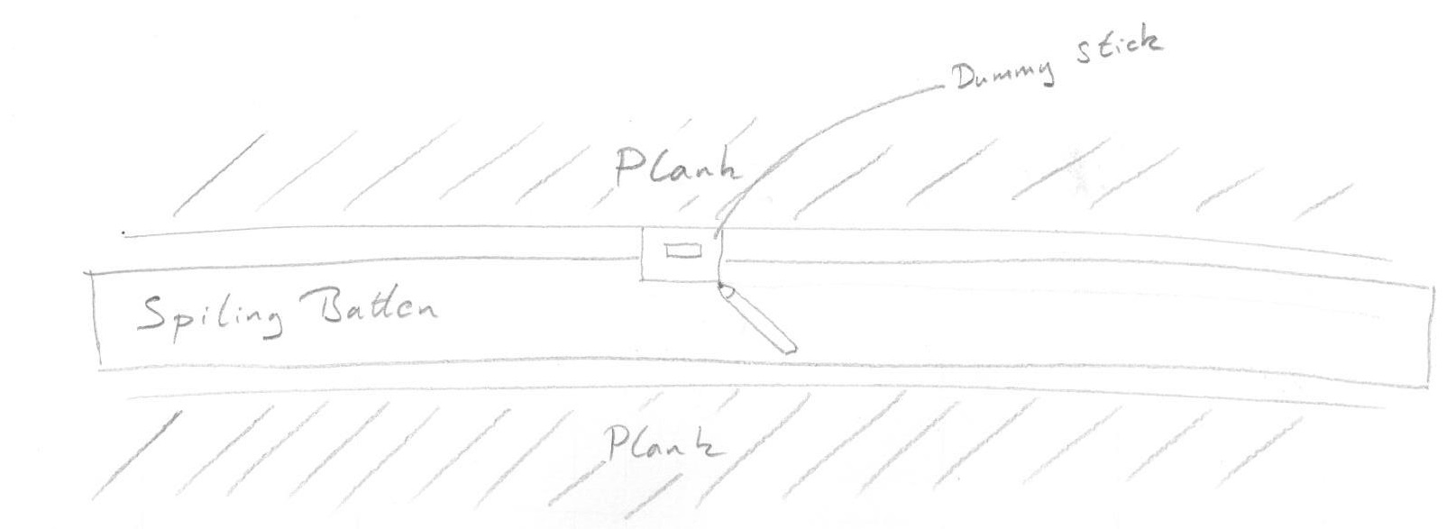 Illustration of the use of a spiling batten